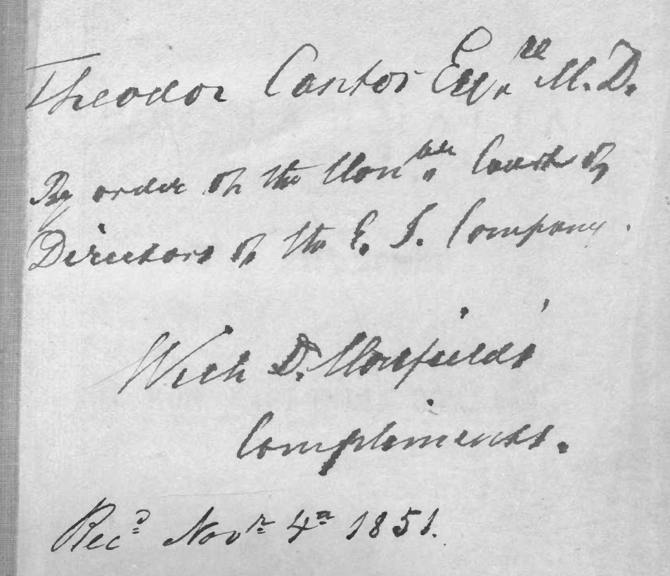 Thomas Horsfield Signature on book in